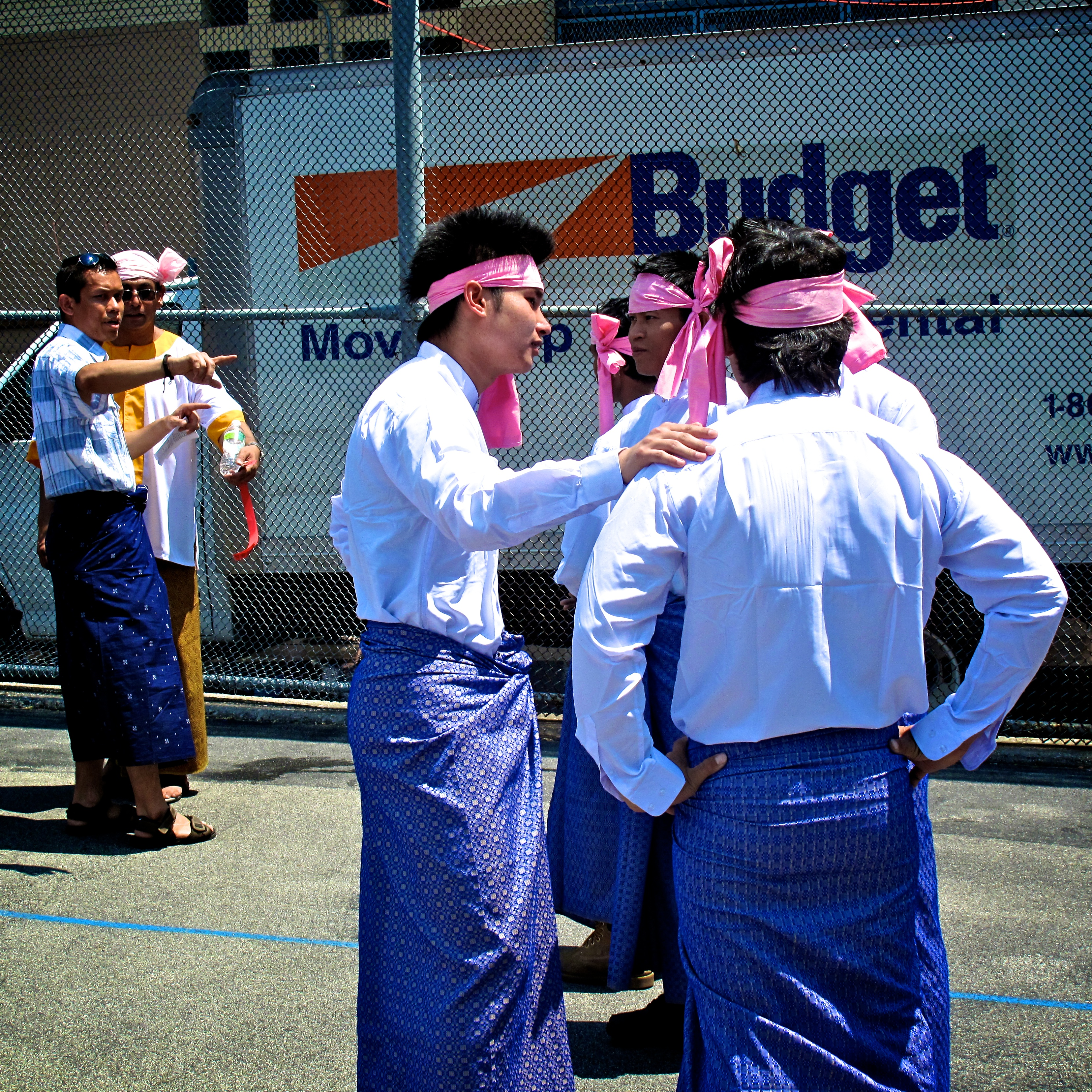 Thangyat performers at New York City Thingyan (Burmese Water Festival), 2010. The festival took place at PS 9 Sarah Anderson School, 100 West 84th Street, Manhattan.